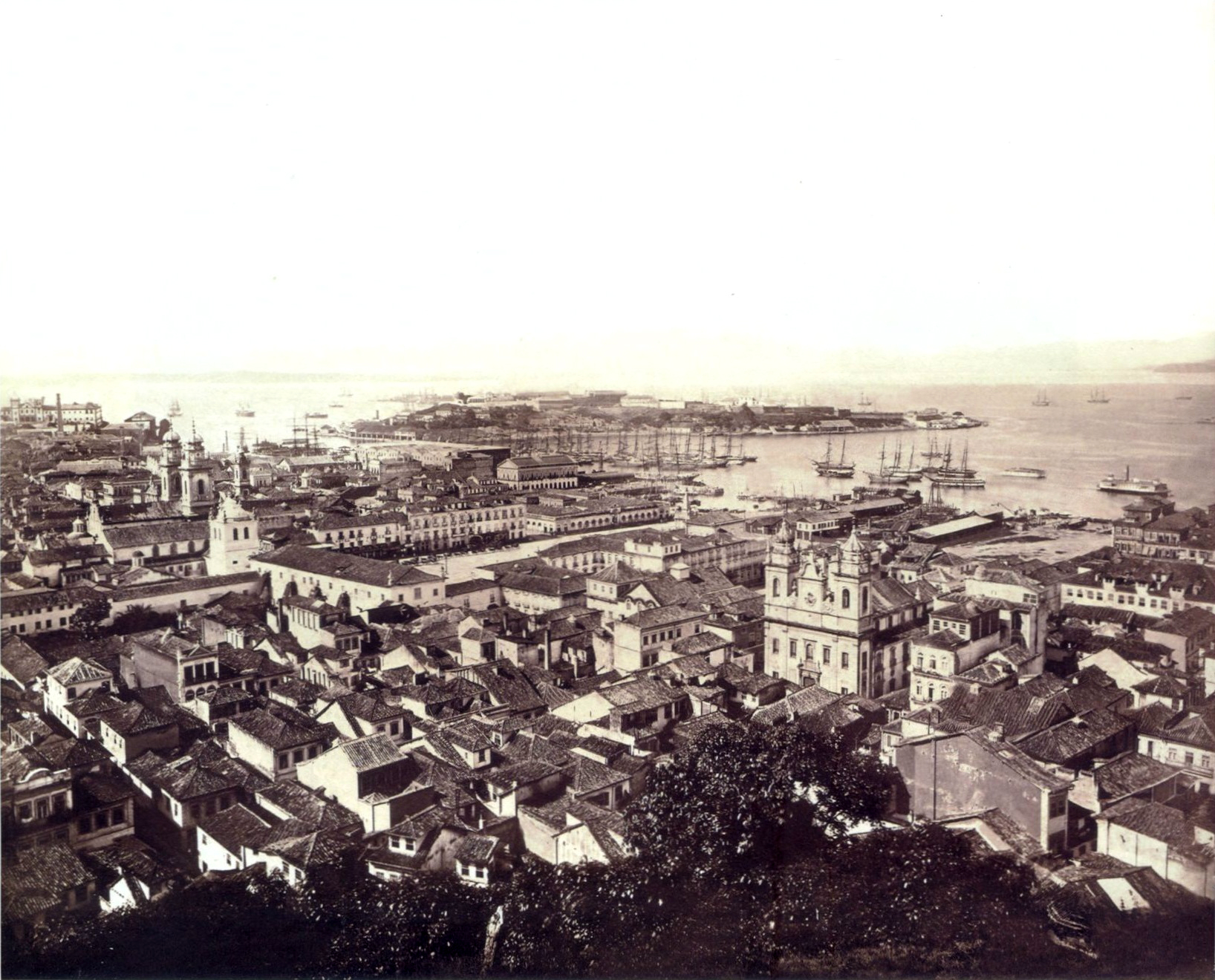 Rio de Janeiro, capital of the Empire of Brazil. Photo taken from the morro do Castelo, c.1865